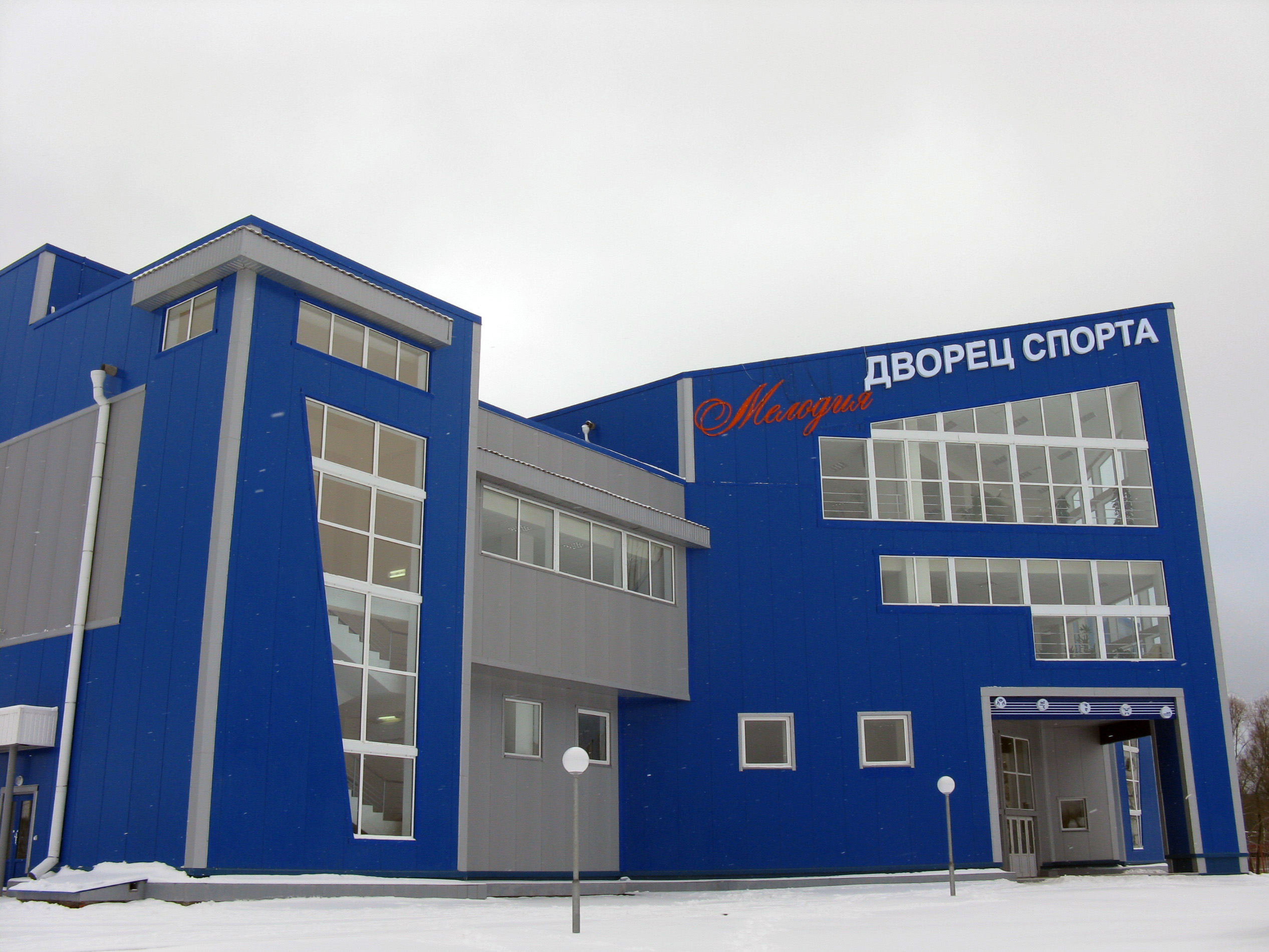 Melodiya sport palace in Aprelevka (Moscow Oblast, Russia)